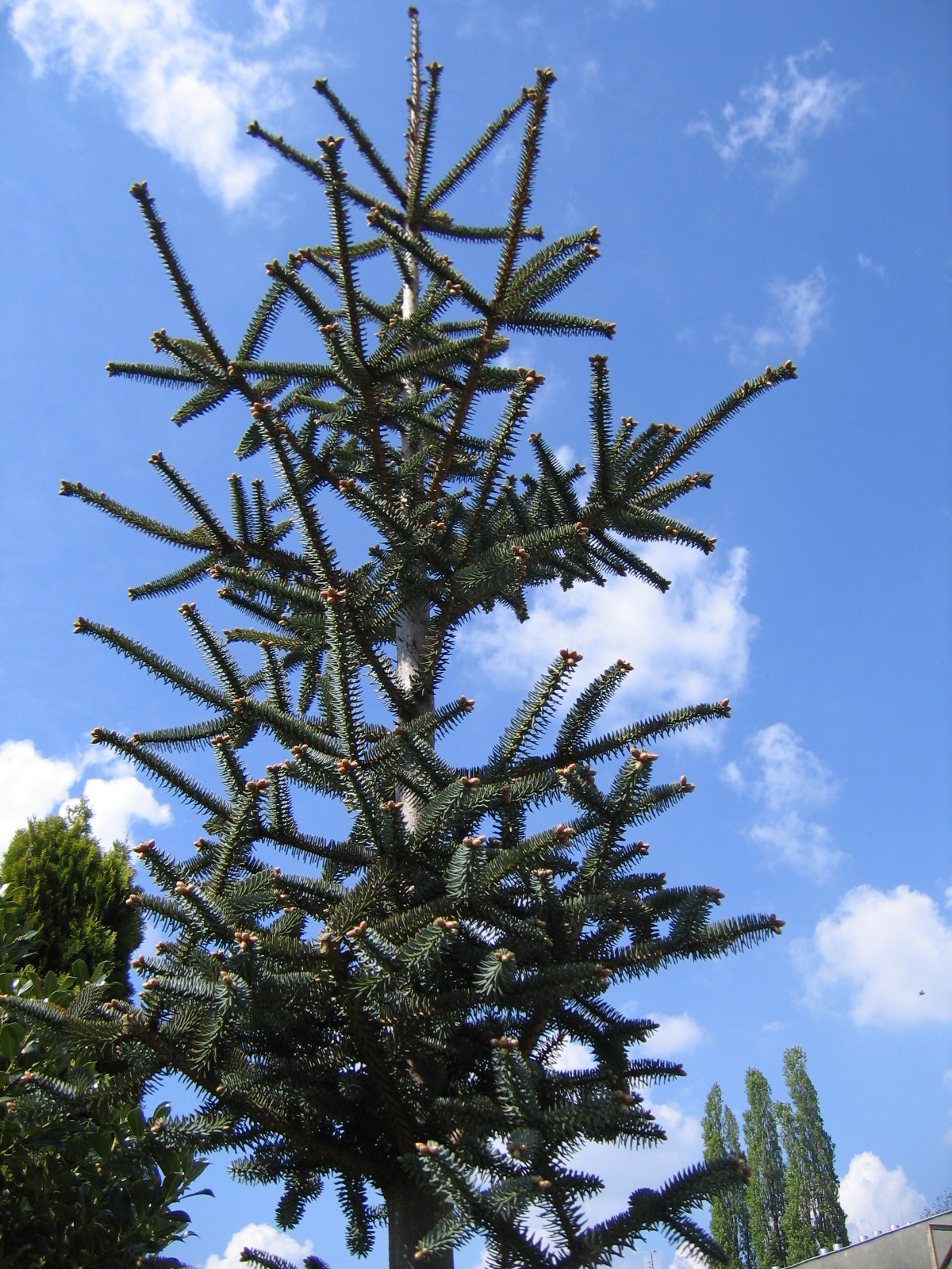 Spanish Fir 'Glauca' (Abies pinsapo 'Glauca'), cultivated in Wrocław University Botanical Garden, Wrocław, Poland.